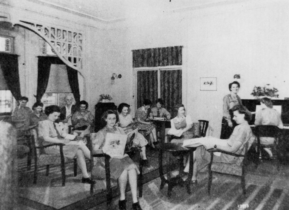 Group of servicewomen in the lounge room at 'Wairuna' in Highgate Hill, Brisbane in the 1940s Group of servicewomen in the lounge room at 'Wairuna', the Presbyterian & Methodist Hostel for servicewomen. 'Wairuna' at 27 Hampstead Road, Highgate Hill was designed by the architect Robin Dods and opened in February 1943. (Description supplied with photograph).